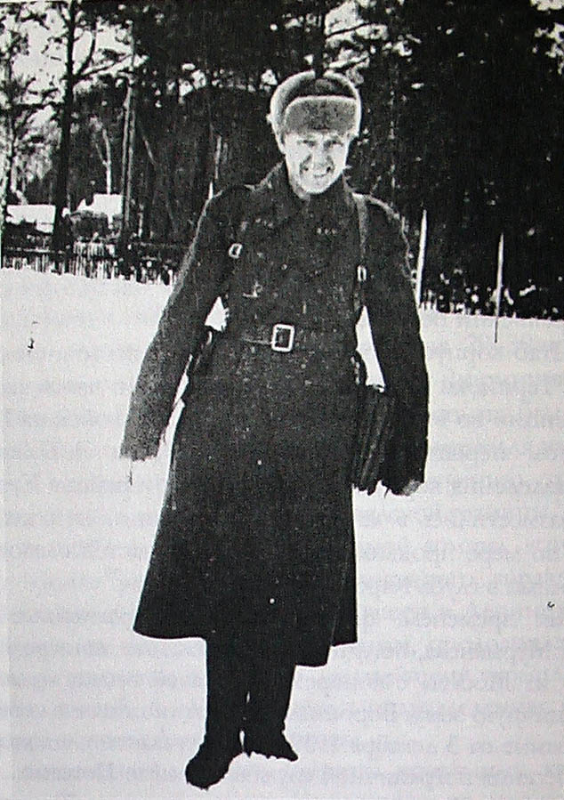 Officer of the Finnish People's Army in Terijoki in December 1939.